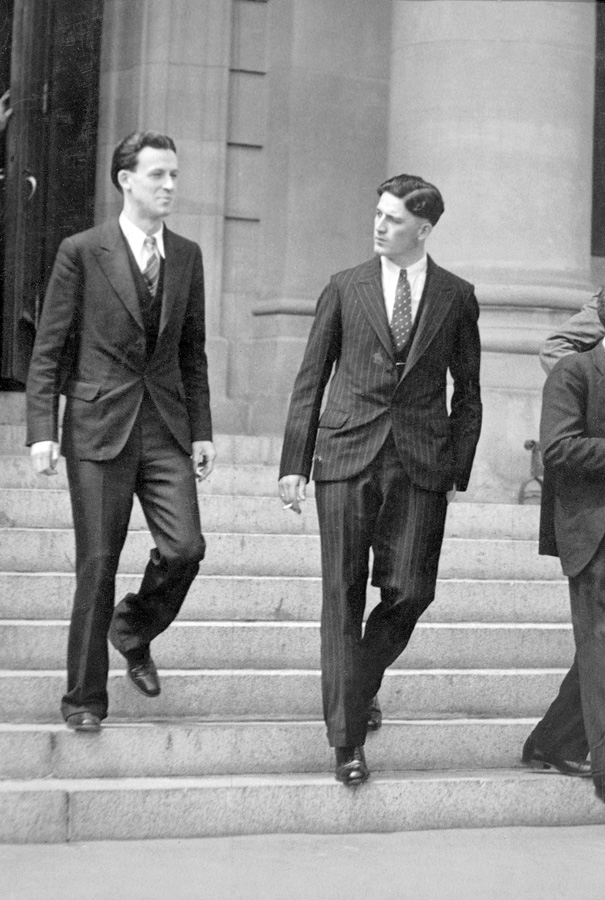 John Caldwell, Vivian MacMillan's would-be fiance and alleged co-conspirator, and Sam MacMillan, her brother, at the Edmonton courthouse where Vivian was suing John Brownlee for seduction.